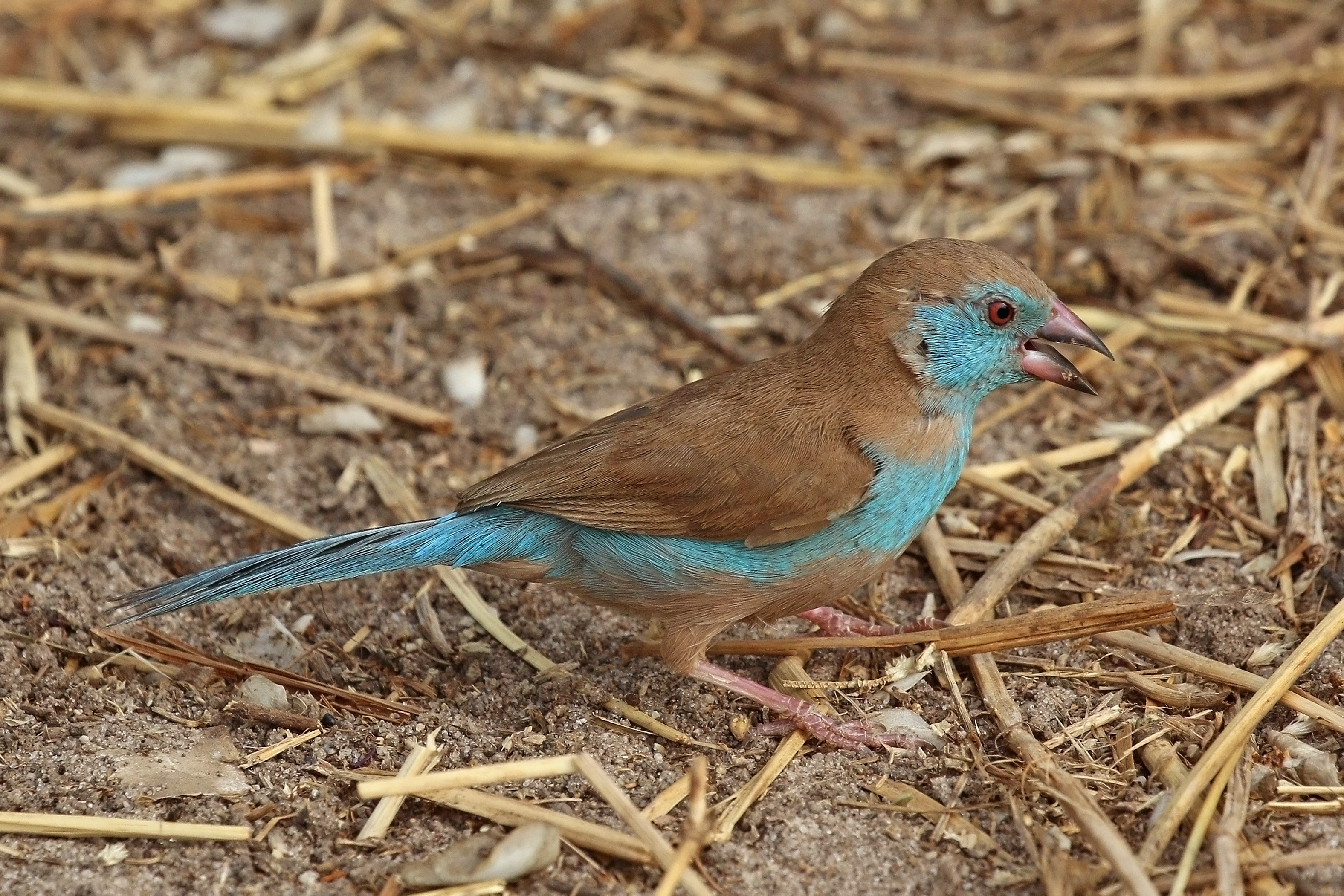 Red-cheeked cordon-bleu (Uraeginthus bengalus bengalus) female, The Gambia